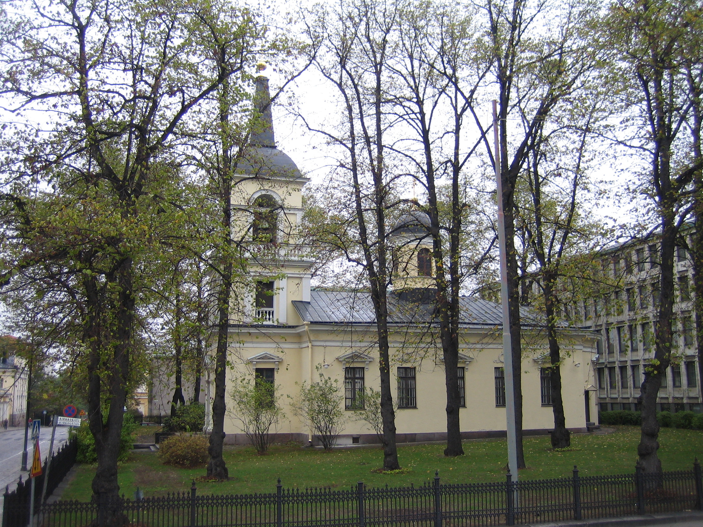 Church of Holy Trinity, Unioninkatu 31, Helsinki, Finland. Carl Ludvig Engel, 1826.